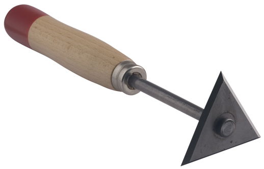 Dutch quality paintscraper 6CM by W. Nooij Schildersgereedschappen